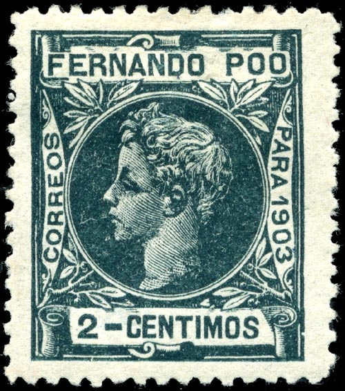 Fernando Po 2-cent stamp of 1903